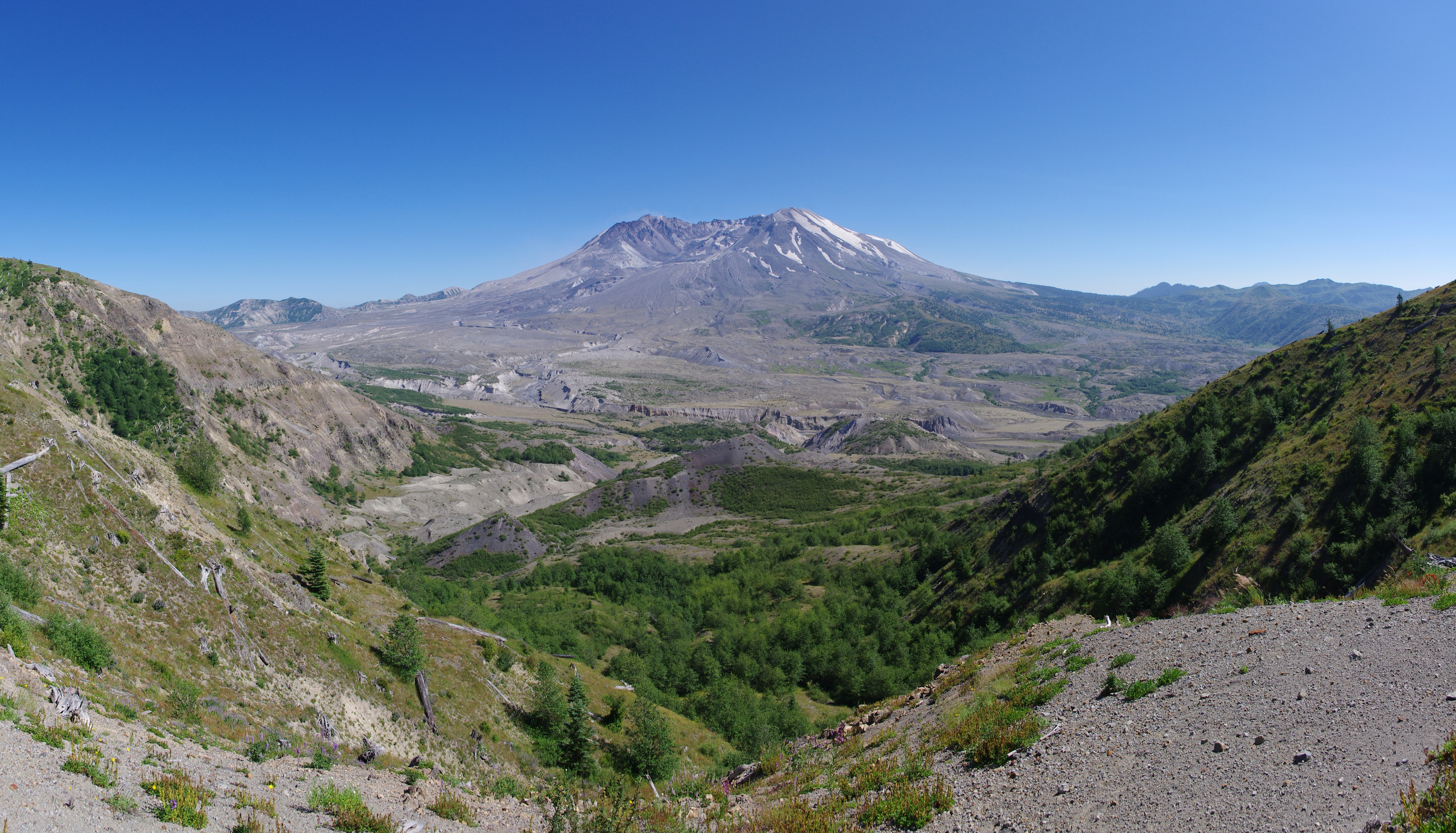 A panorama of Mount St. Helens